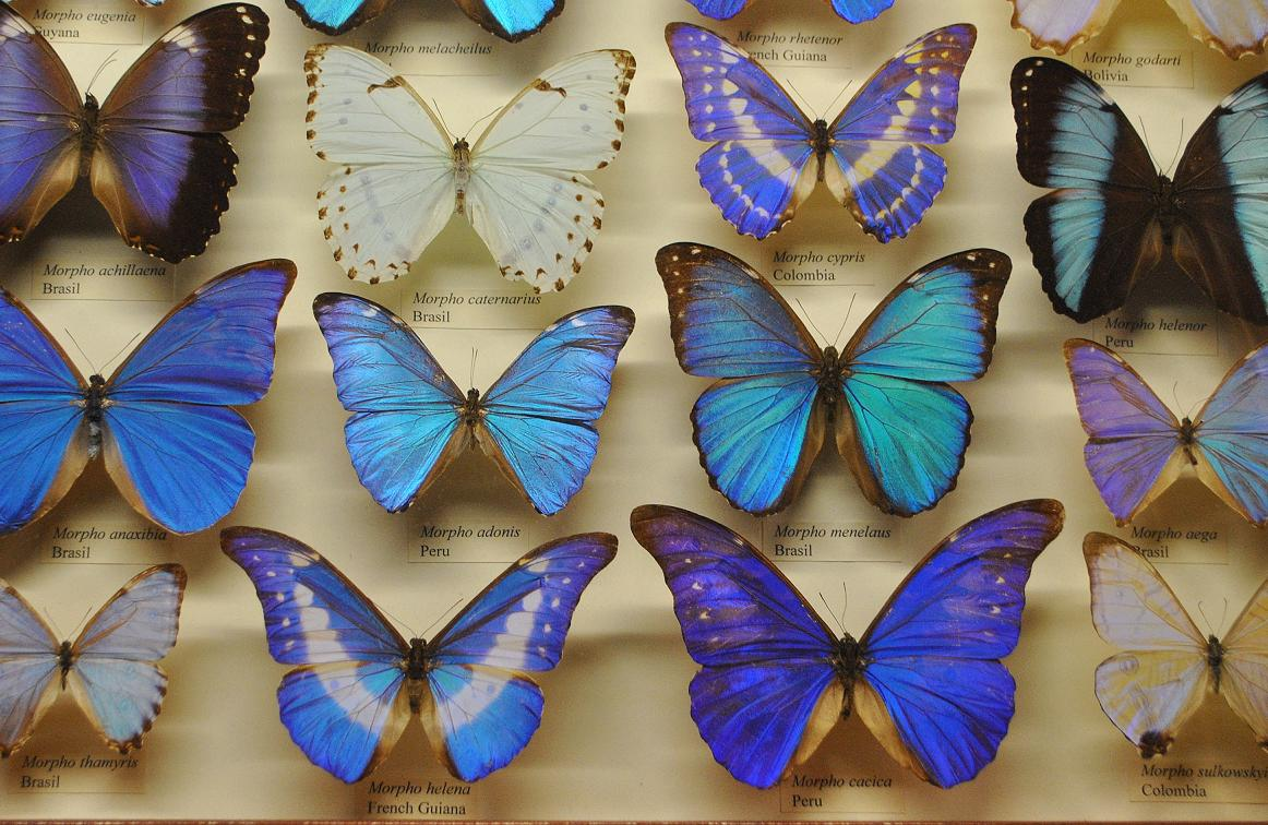 Lepidoptera collection in the AMNH